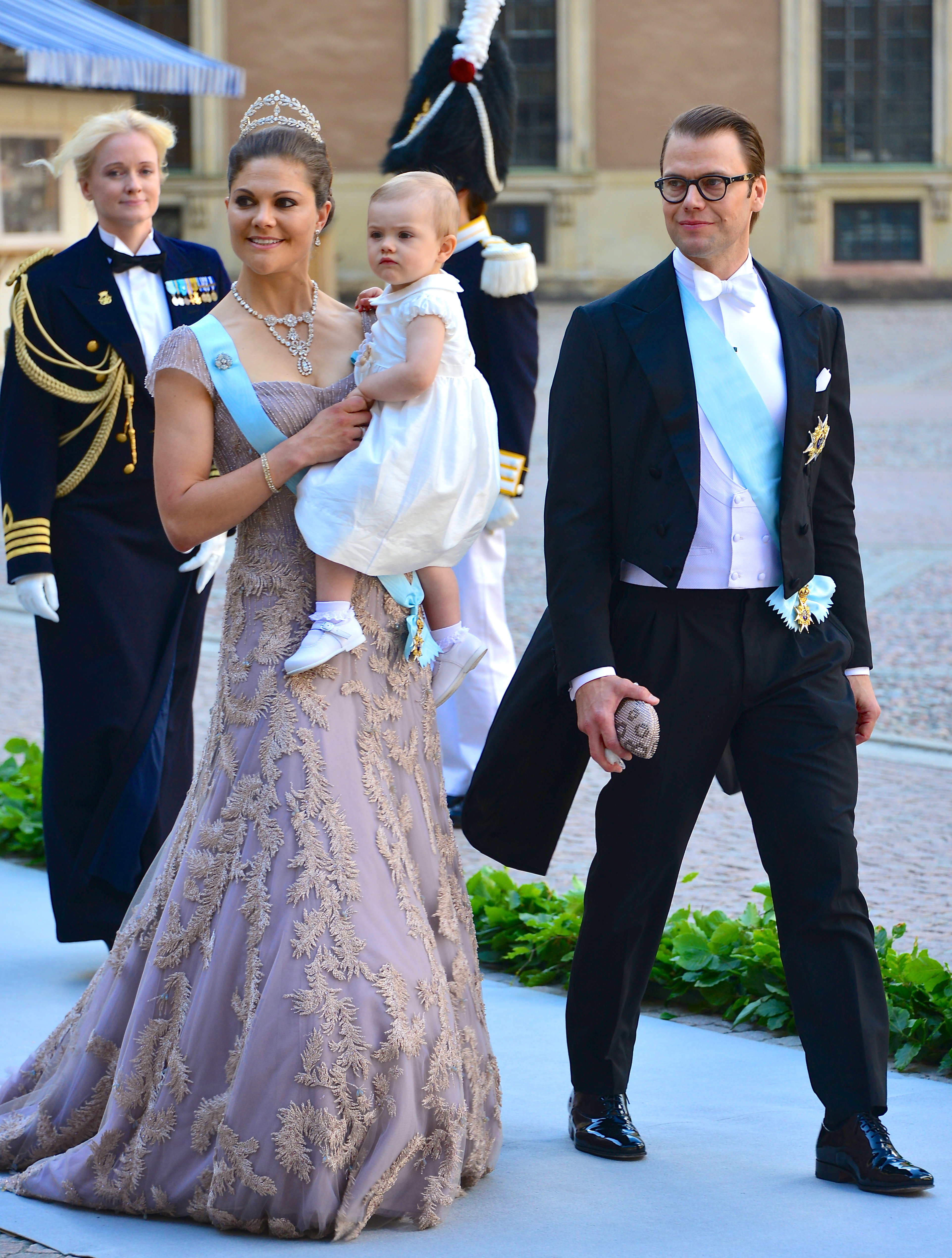 Crown Princess Victoria, Princess Estelle and Prince Daniel on the way to the castle church at the Royal Palace in Stockholm for the wedding between Princess Madeleine and Christopher O'Neill, June 8, 2013.